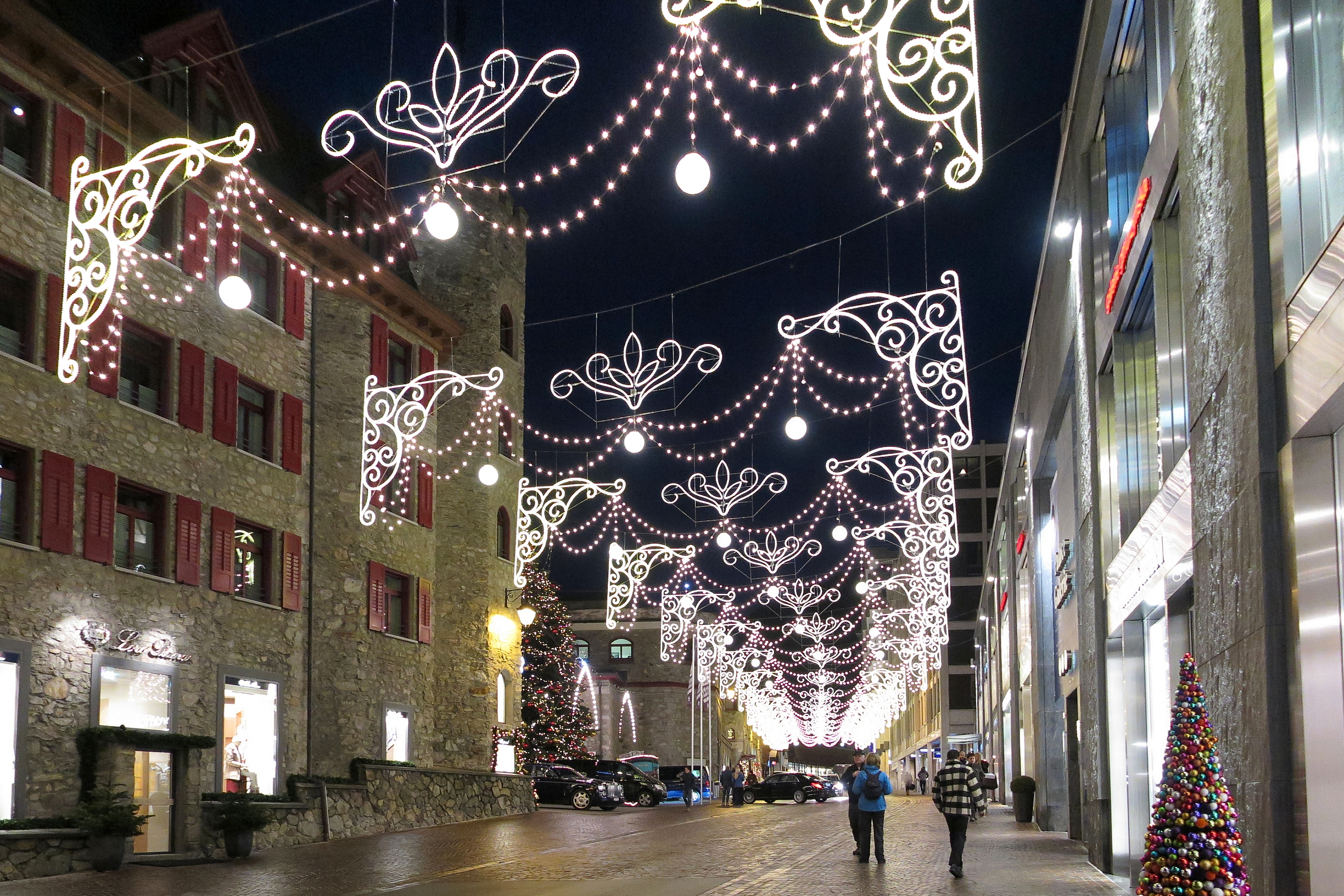 Various media launched polls about places in Switzerland with the most beautiful Christmas lights. St. Moritz is in the very front rank lists. Along the road from the station up to the center was invested most in Christmas lights. A dynamic sparkling effect that a photo cannot brings to bear, are flashes of lights. Switzerland, Dec 19, 2014. (1/9) (All night shots in this series taken freehand with G1X Mark II.)